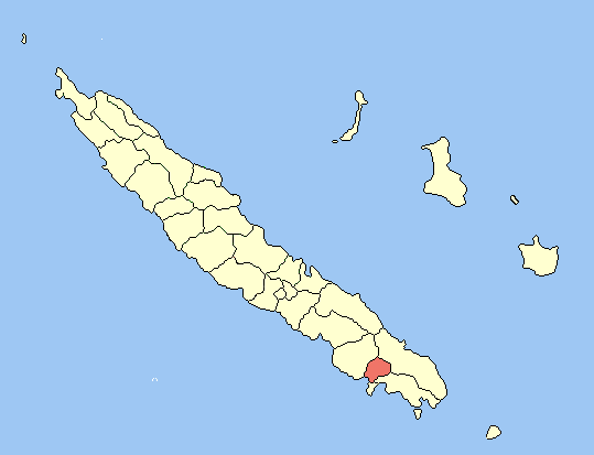 Created map myself.